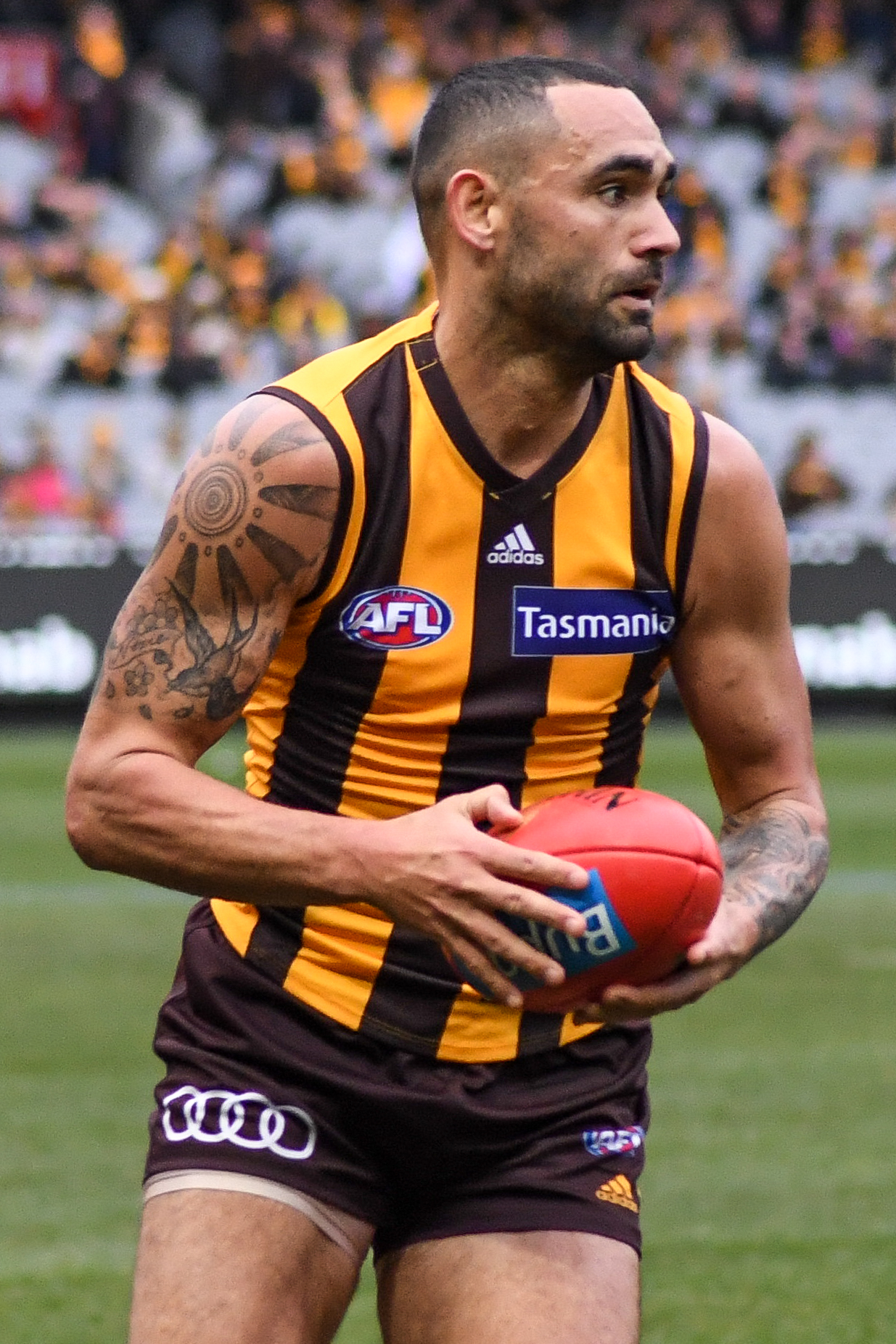 Shaun Burgoyne of Hawthorn during the 2018 AFL round 20 match between Hawthorn and Essendon at the Melbourne Cricket Ground on Saturday, 4 August 2018 in Melbourne, Victoria.